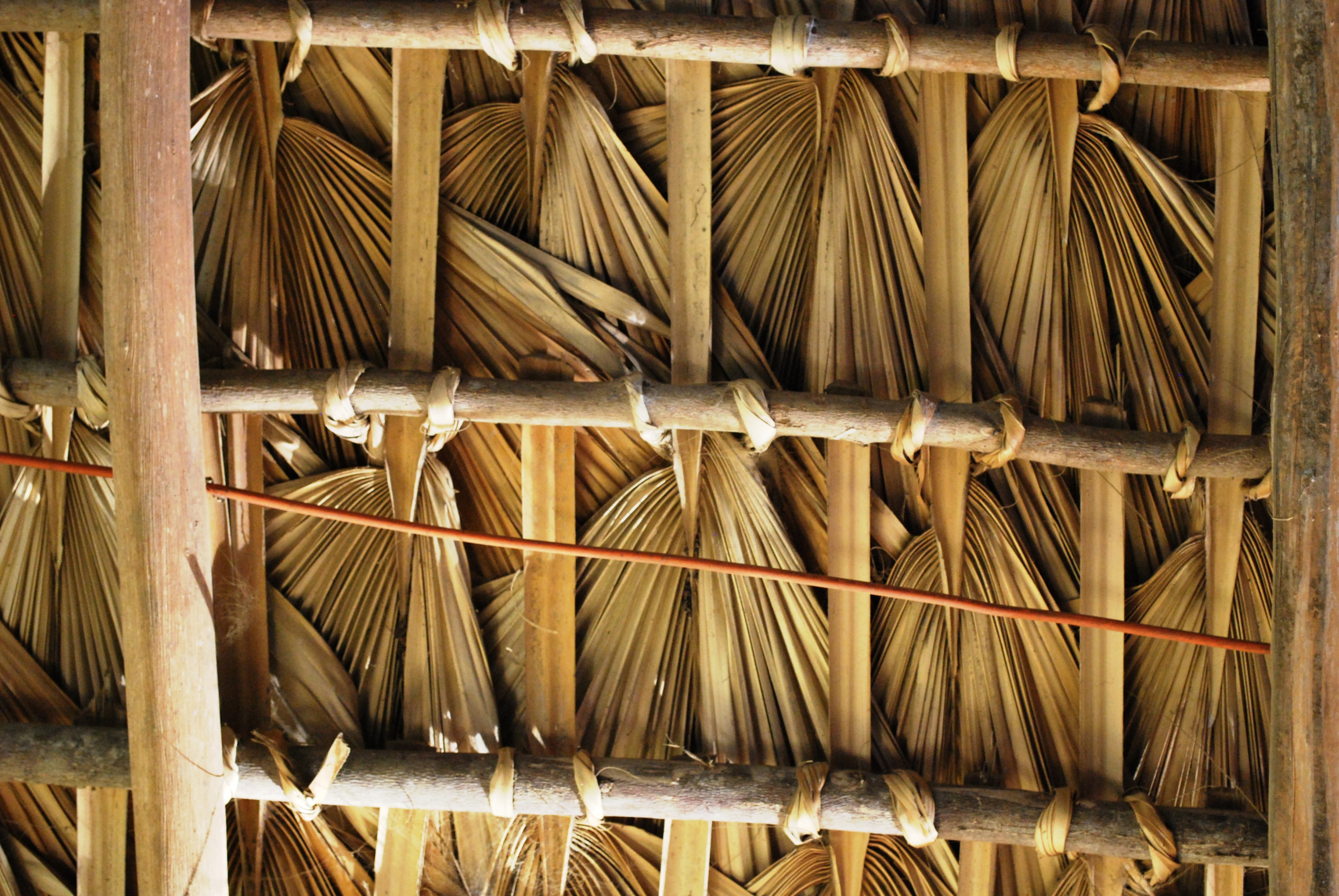 closeup of a palapa roof in Mazunte, Mexico